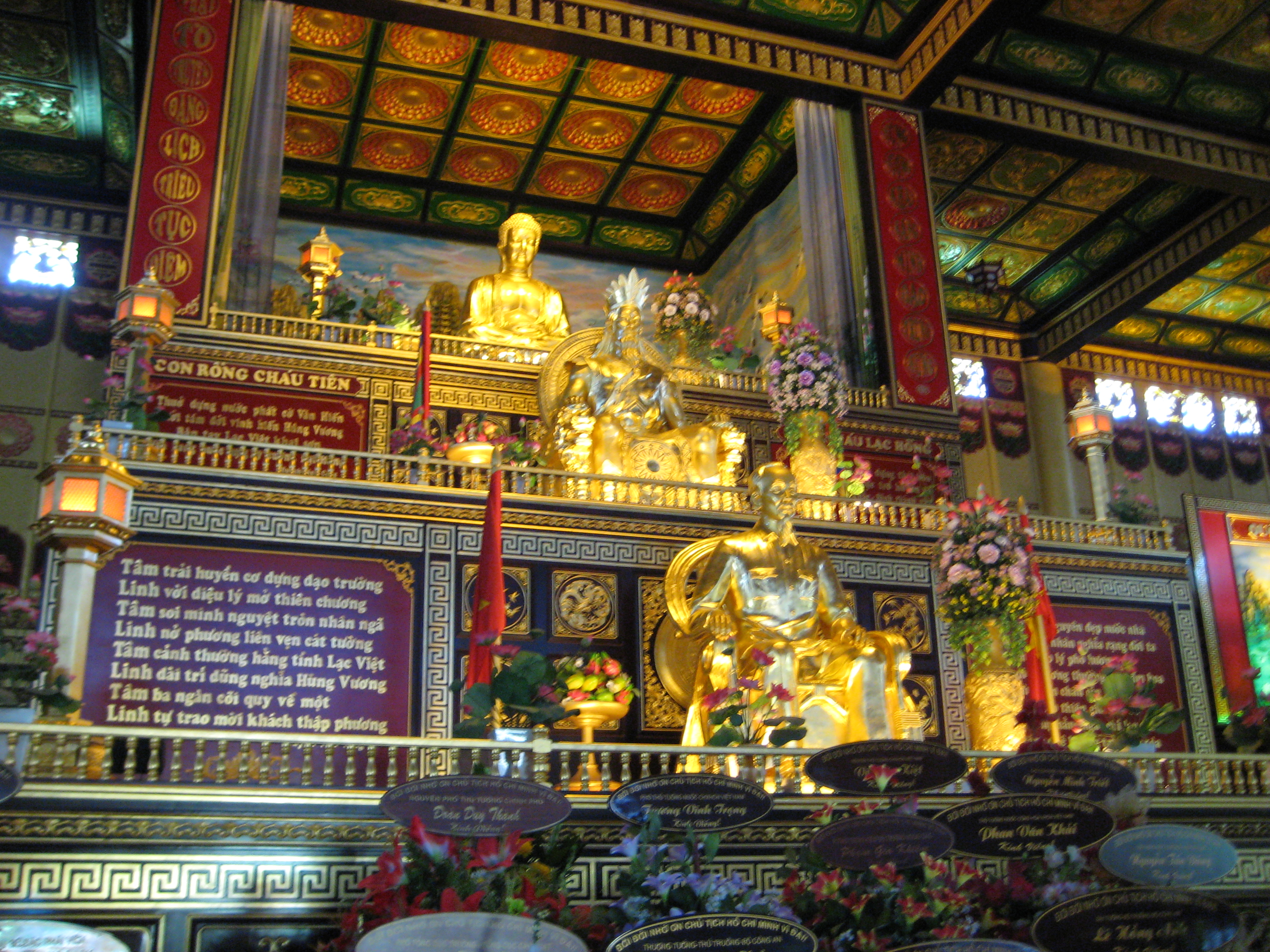 Main workship place in Đại Nam Quốc Tự, Binh Duong, Vietnam